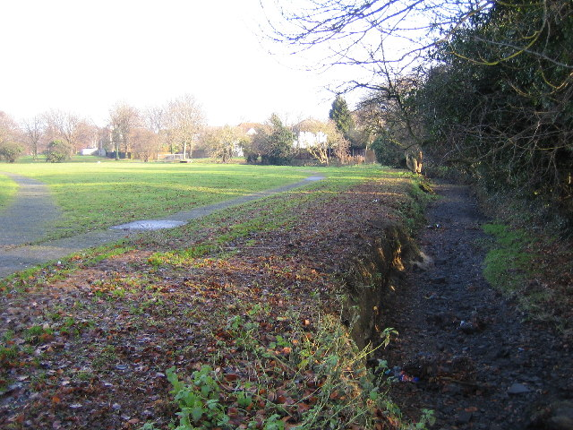 Luton: Lewsey Brook, Leagrave. The stream bed of this tributary of the River Lee is totally dry, viewed here looking eastwards and downstream.